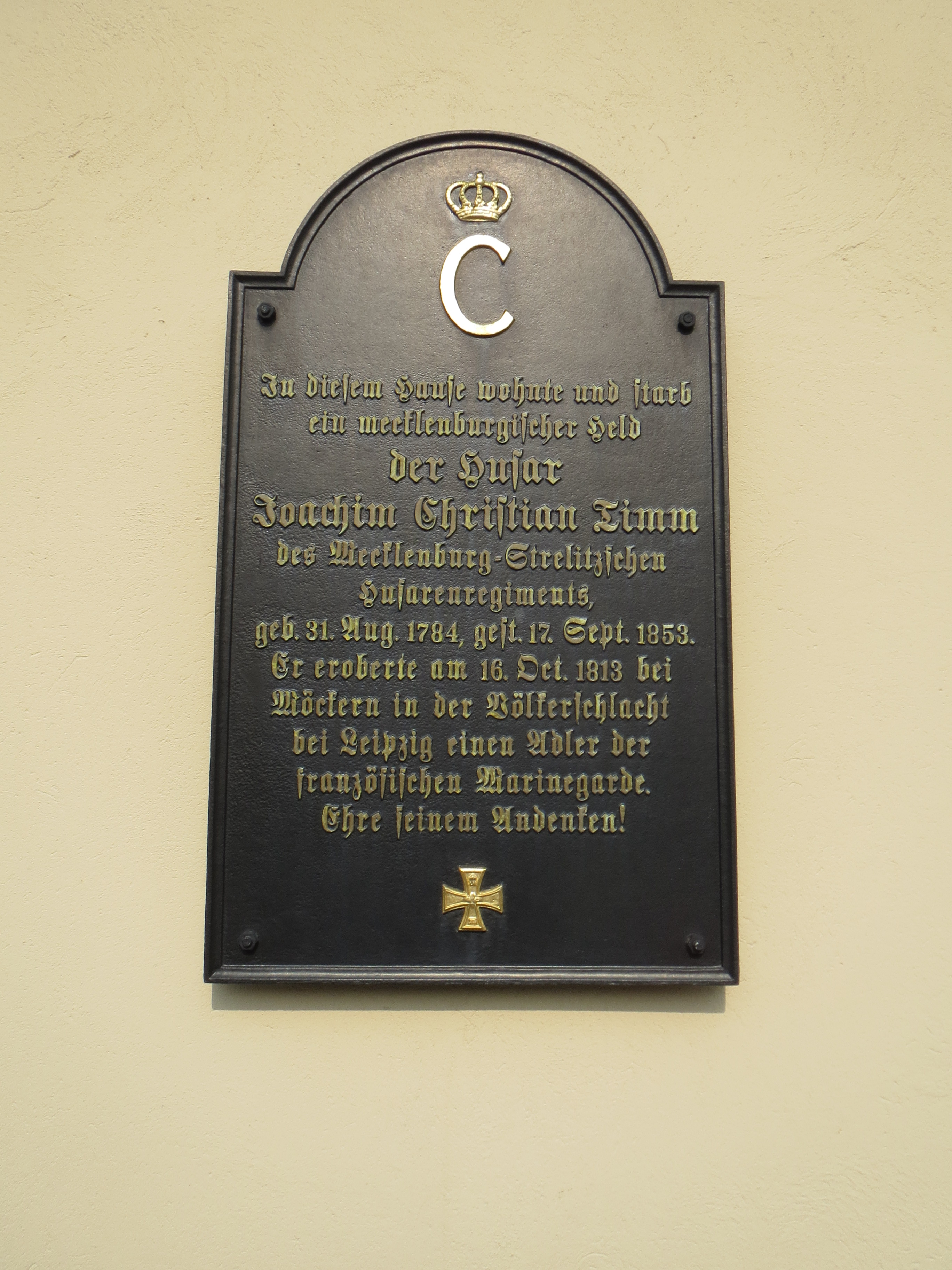 Plaque commemorating Joachim Christian Timm (Husar) in Neustrelitz, Glambecker Nebenstrasse